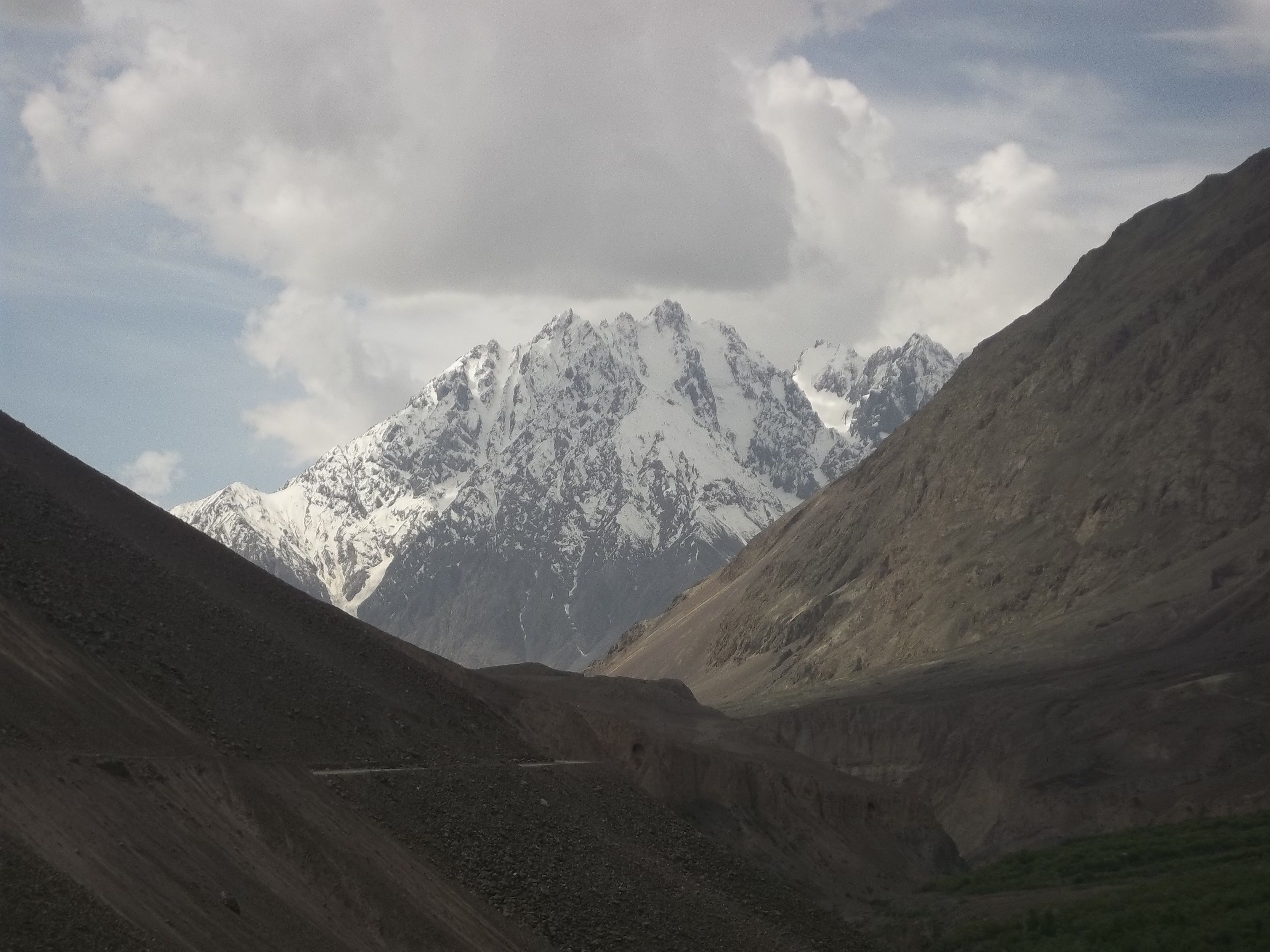 Trichmir Peak in Pakistan